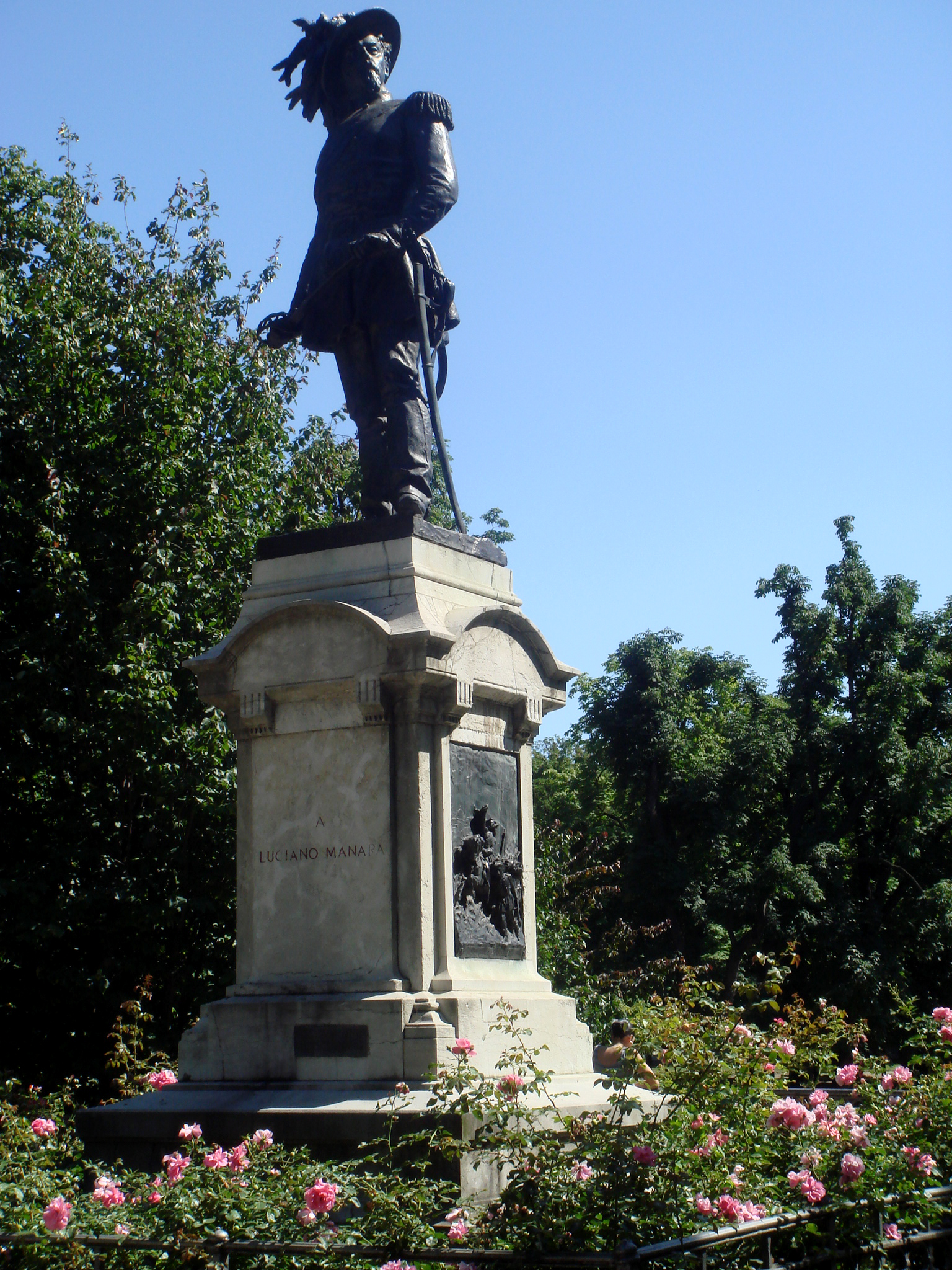 Francesco Barzaghi (1839-1892), Monument (1894) to the Italian patriot Luciano Manara (1824-1849) in the "Giardini pubblici di Porta Venezia" gardens, in Milan, Italy. Picture by Giovanni Dall'Orto, June 23 2007.